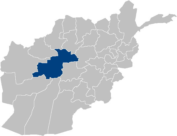 Location map for Ghor Province in Afghanistan. Original map source: Image:Afghanistan_provinces_blank.png